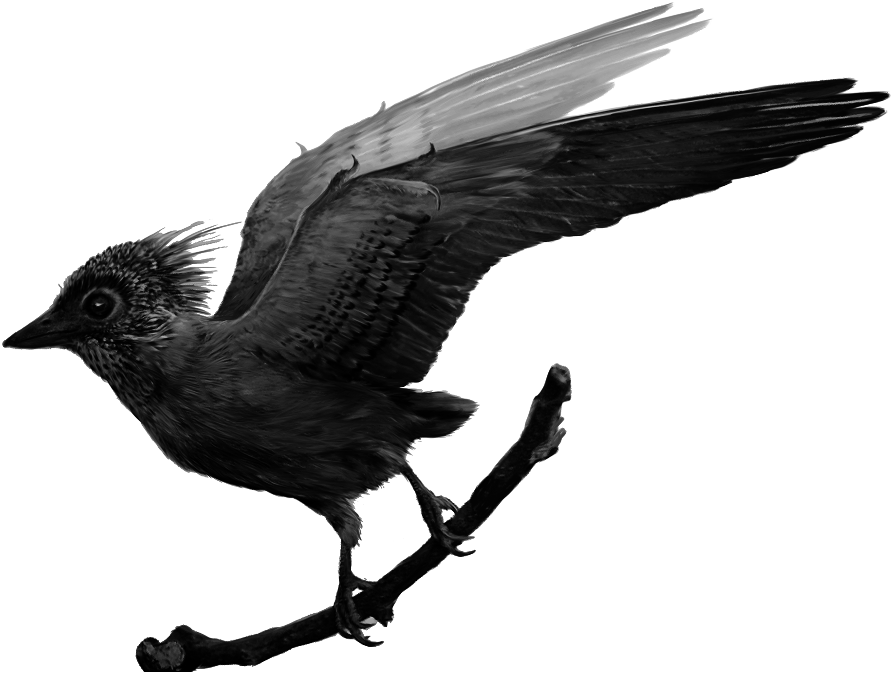 Reconstruction of the plumage in Confuciusornis CUGB P140. Morphological data and probable eumelanin signatures are consistent darker preserved regions as associated with dark colors in the fossil (sampling regime explained in Fig. 1).